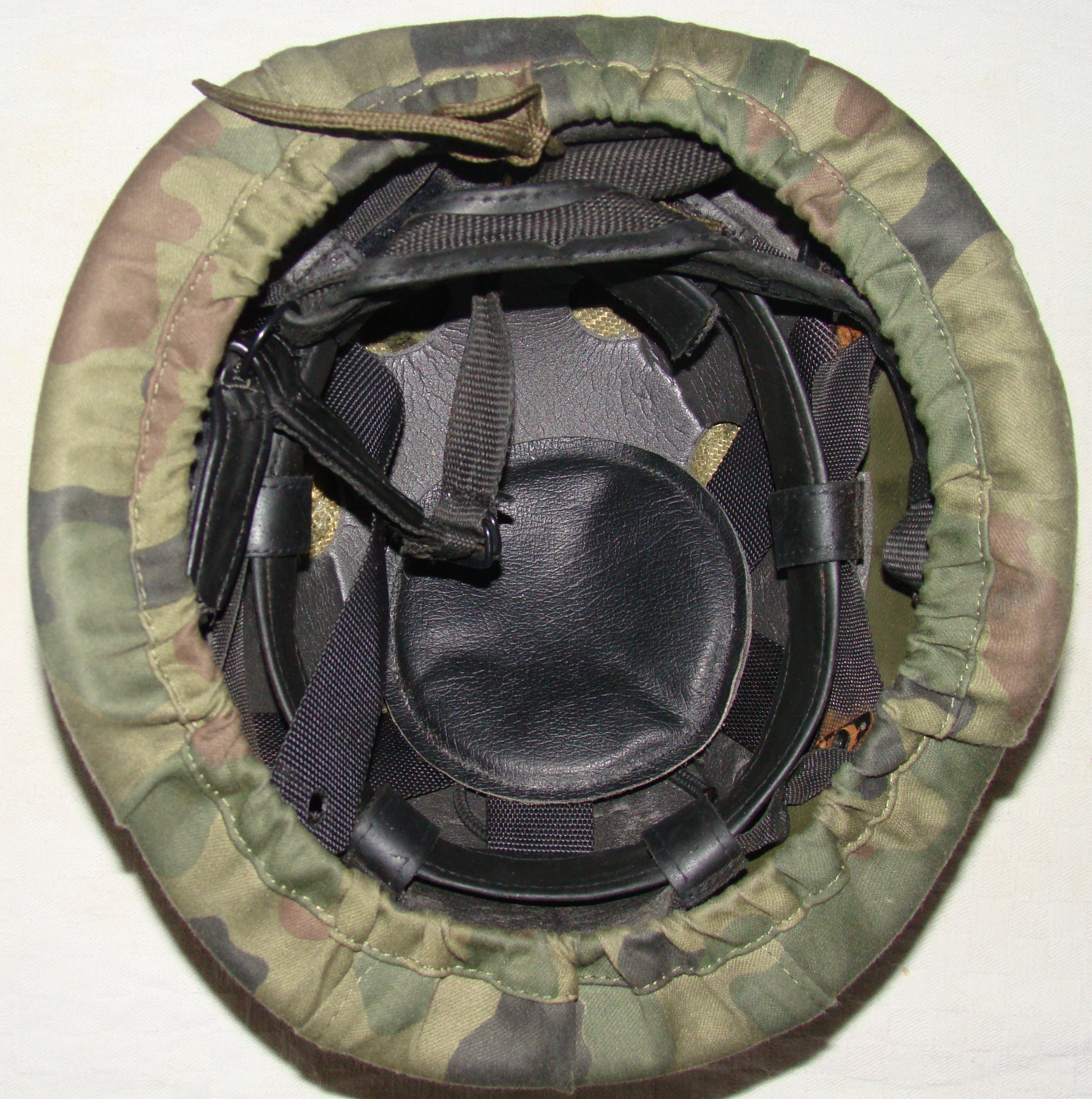 Helmet wz.93 - inside